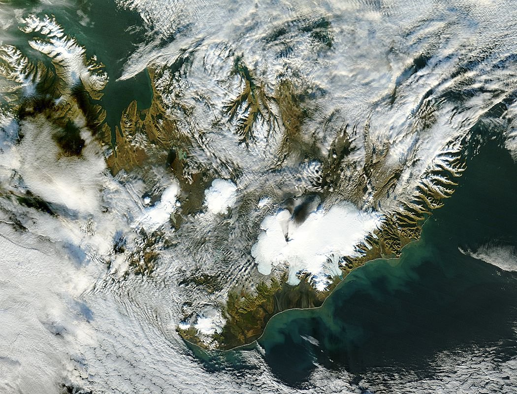 Ash from Grimsvotn Volcano, Iceland across Vatnajokull Ice Cap.